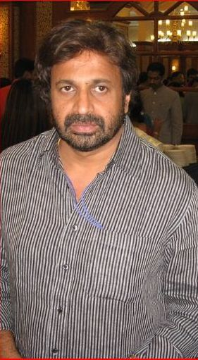 Picture of Siddique, a popular Indian actor of Malayalam films